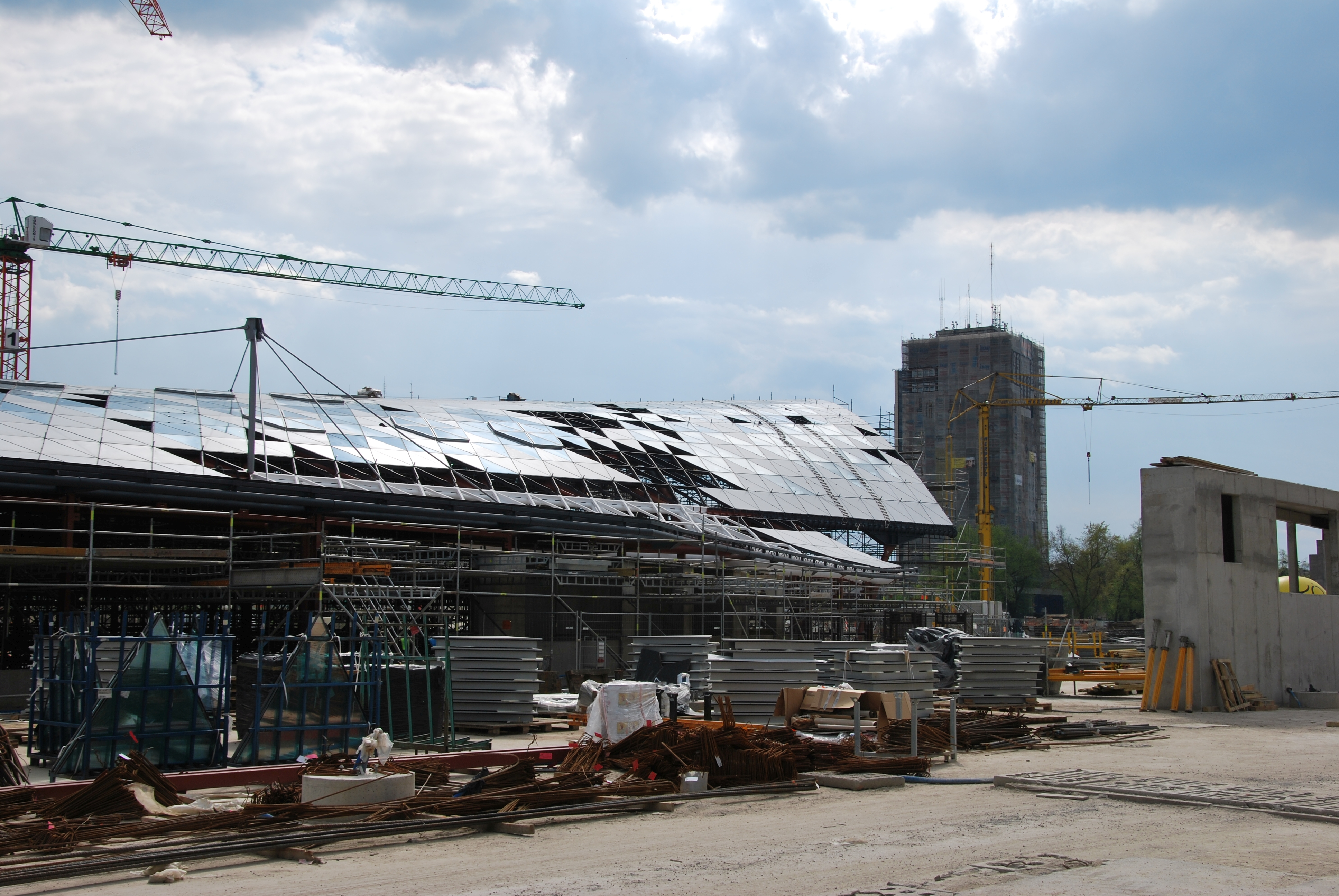 Building of a new Łódź Fabryczna station, May 2015